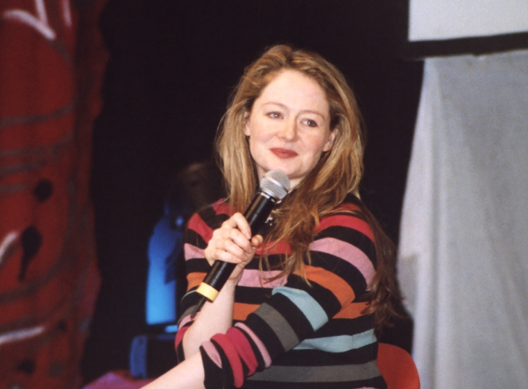 Australian actress Miranda Otto at the Lord of the Rings-Convention Ring*Con 2006 in Fulda, Germany.